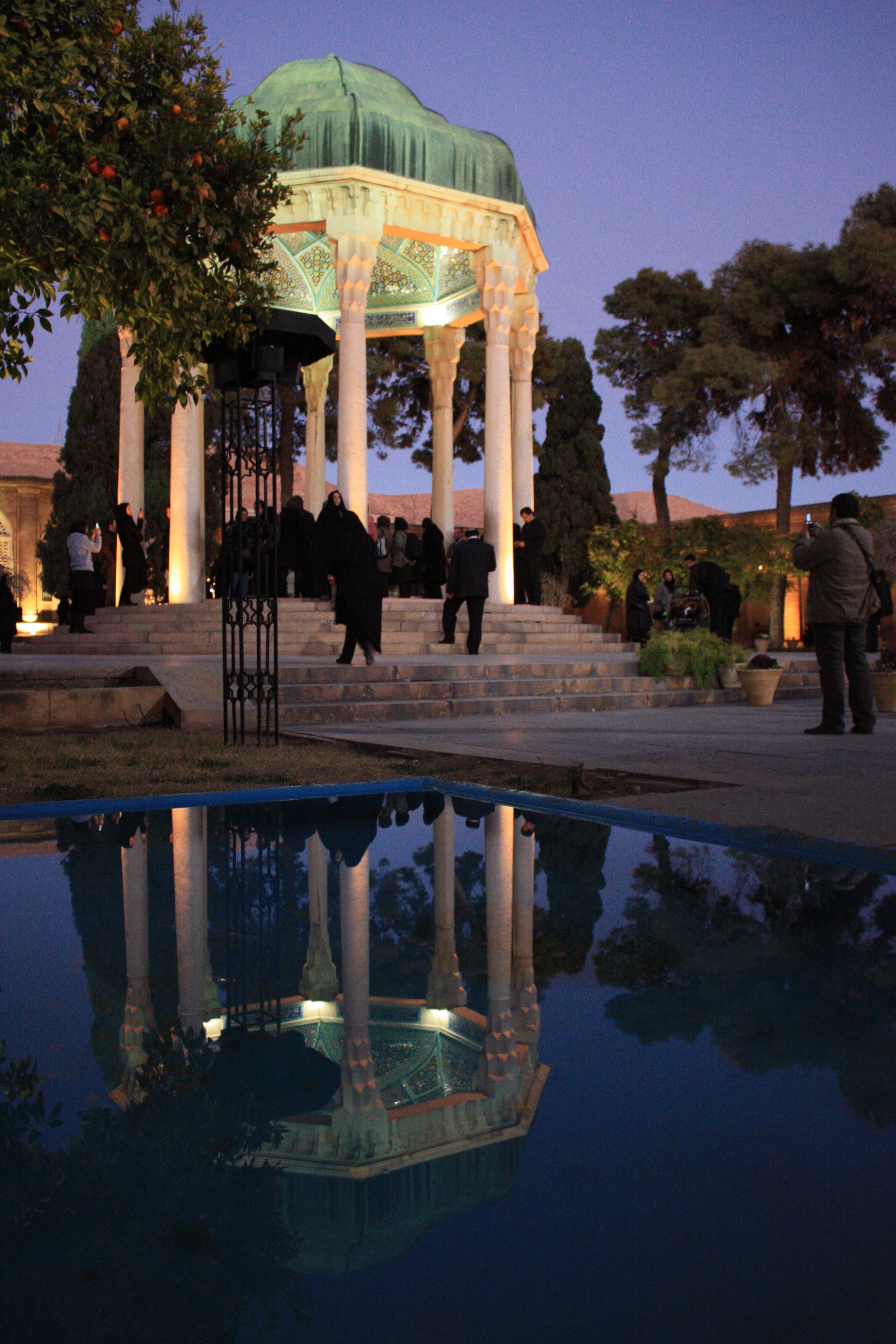 Tomb of Hafez in Shiraz